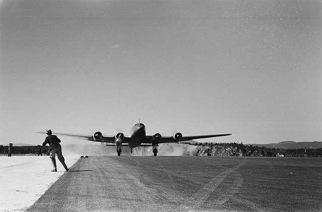 Oslo Airport, Fornebu on opening day: 1 July 1939 with a Focke-Wulf Fw 200 aircraft from Det Danske Luftfartselskab on the runway.